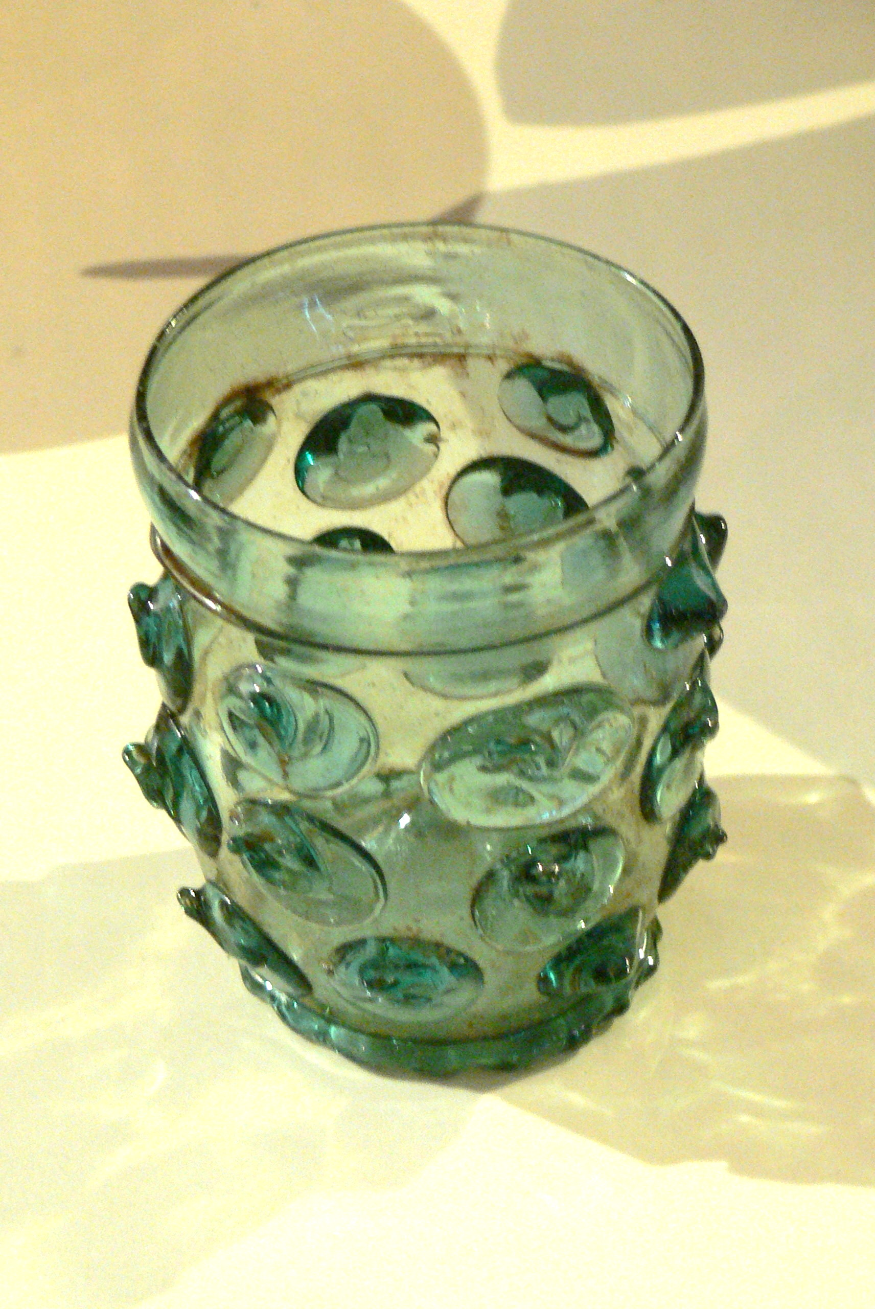 Oberhausmuseum ( Passau ). Medieval drinkware ( Nuppenbecher, 14th century )